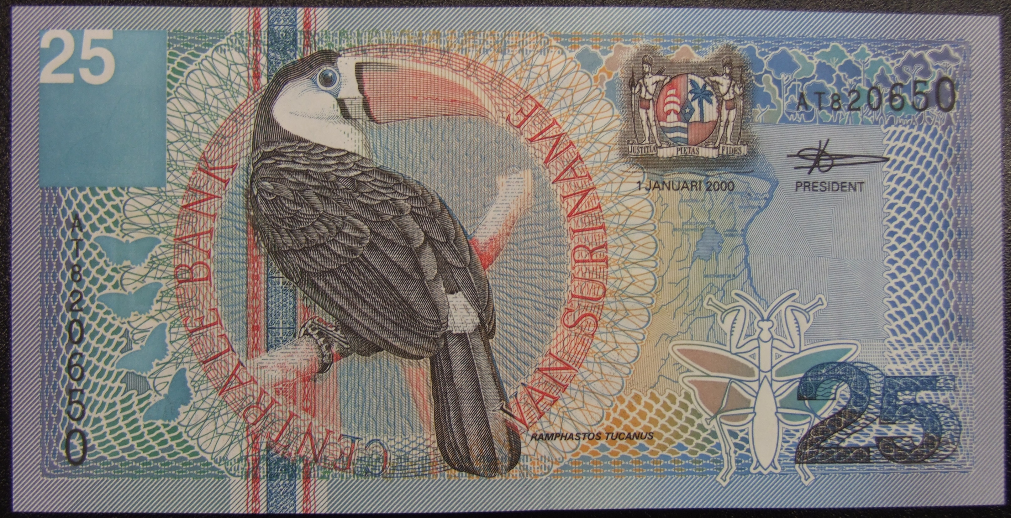 Suriname 25 gulden